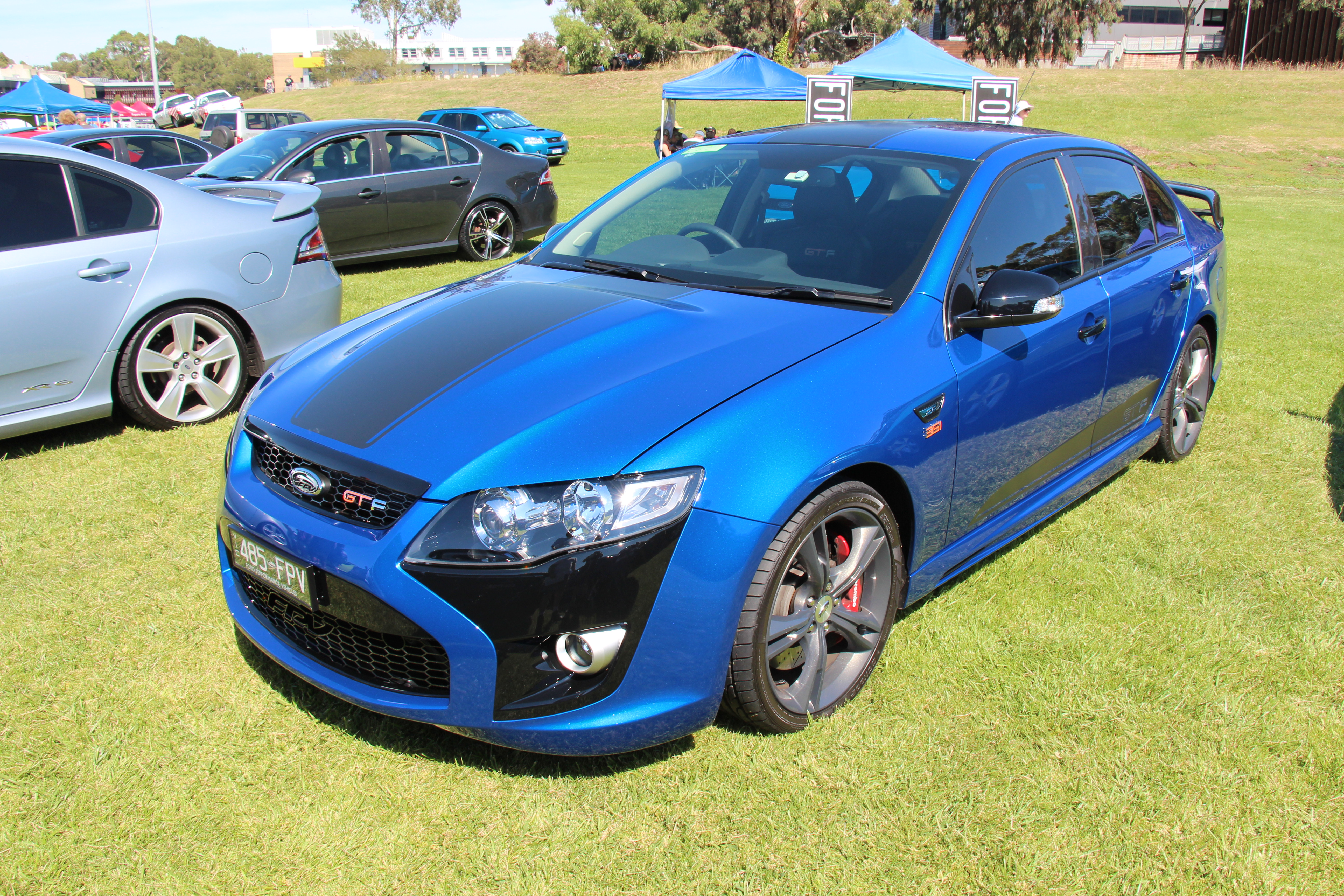 Kinetic. The FG Falcon was built from Feb 2008 to Dec 2014. The FG was a completely new car, this 7th and last generation Falcon was the safest Falcon ever made. Ford Performance Vehicles (FPV) produced the performance models for Ford Australia, they operated from 2003-2014. FG FPV models available were; The F6 and F6E 310kw Turbo 6 cyl sedans and F6 ute The GS, GT, GT-P, GT-E, GT-F V8 sedans and the GS, Pursuit and Super Pursuit utes. The GT had similar features to the F6, but because of the GTs larger V8, it got a power bulge in the bonnet. The GS was introduced in 2009 as an entry level FPV model. The limited edition GT R-Spec was introduced in 2012 (175 made) black with red stripes, it got upgraded suspension. And finally this car, the last GT Falcon, the 351kw GT-F (F for Final) Only 500 were made for Australia and 50 for NZ. 5 colours available; Winter White, Kinetic, Silhouette, Octane, Smoke and the very last car made was Victory Gold Engine; Coyote Miami 351kw 5.0l supercharged V8.